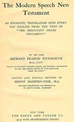 title page of The New Modern Speech New Testament by R.F. Weymouth